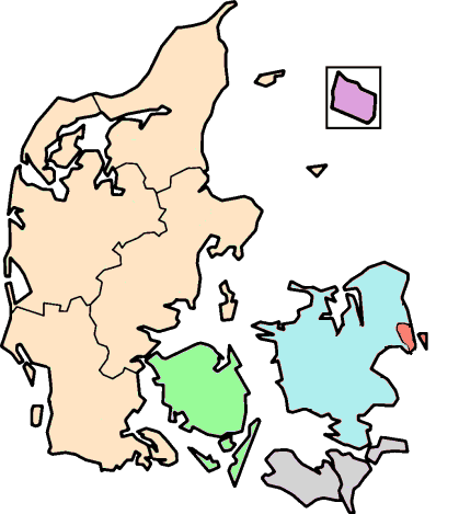 Regional football association of Danemark